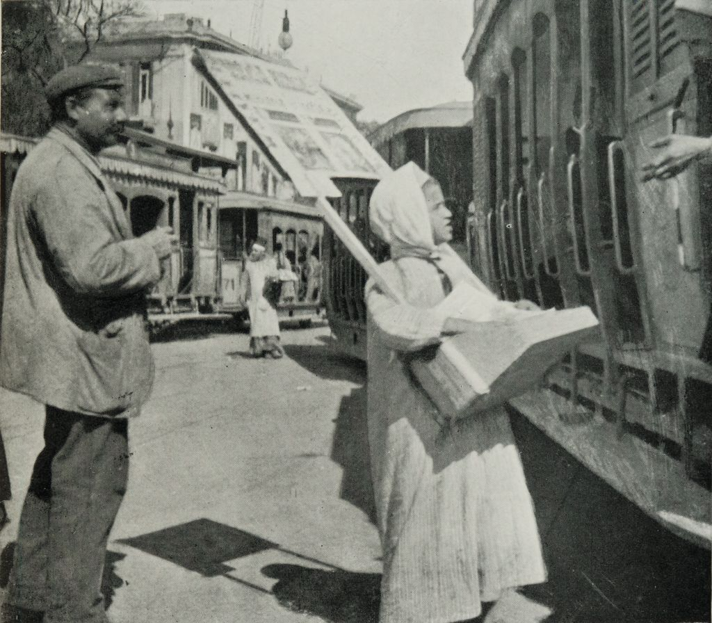 NEWSPAPER-BOY SELLING SEDITIOUS PERIODICALS TO THE PEOPLE IN THE TRAMS IN THE ATABA-EL-KHADRA.Newspaper-boy carrying a sign and selling newspapers. Black-and-white photograph.